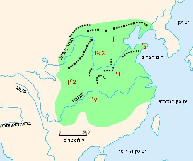 PNG map of the Great Wall : Warring States Period (475 BC - 221 BC) for the small dots, and Qin Dynasty (221 BC - 206 BC) for the big ones.